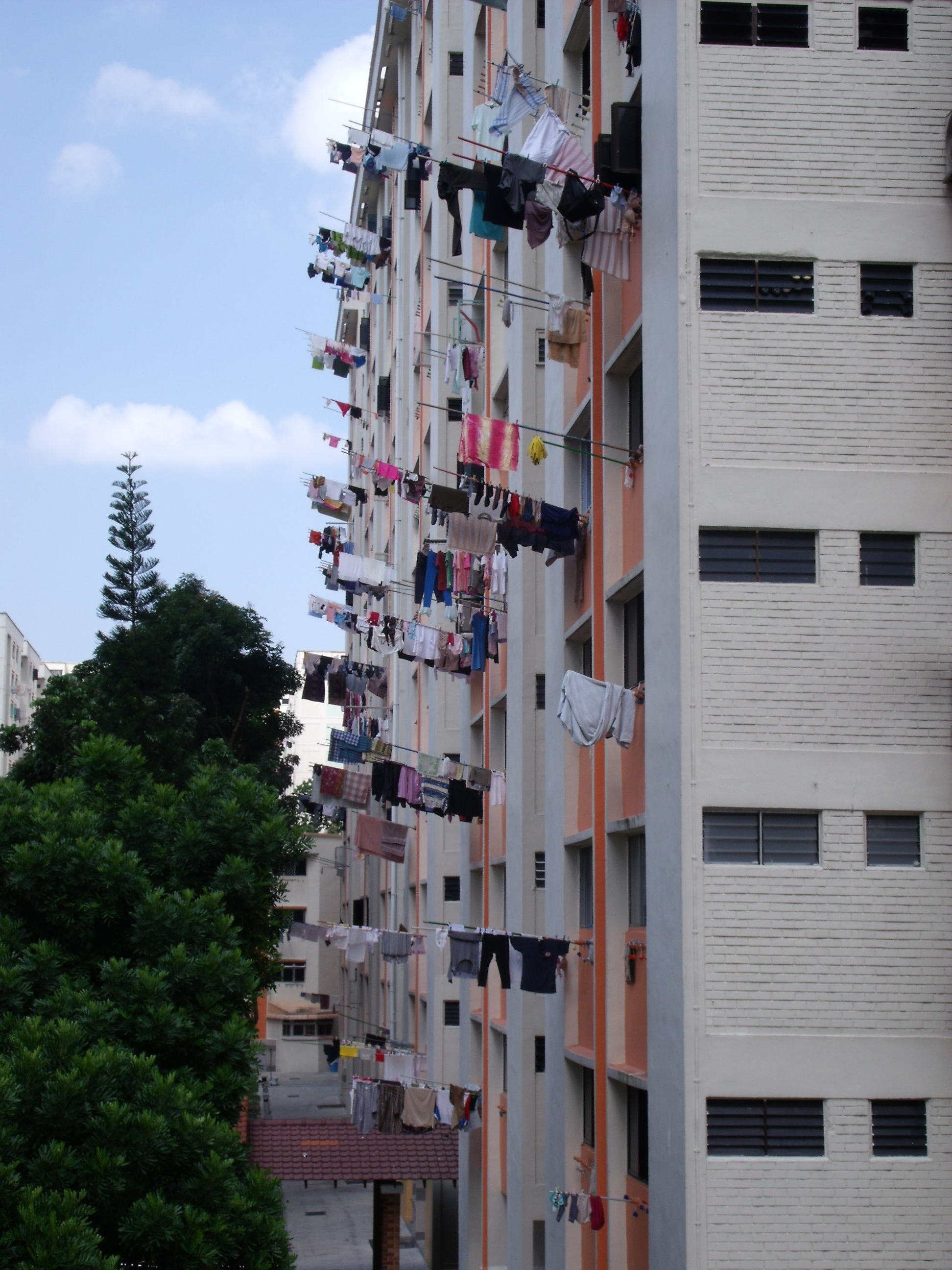 Laundry being hung out to dry in Bukit Batok, Singapore